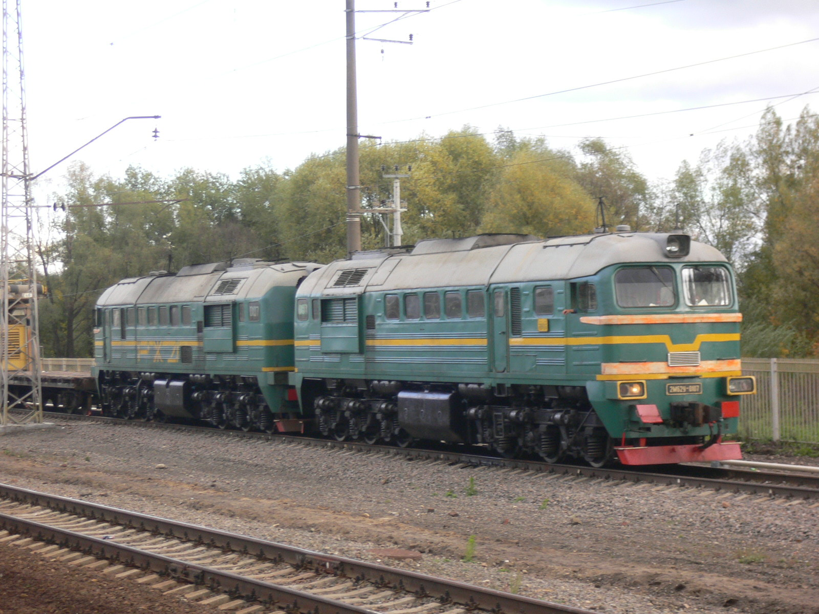 Diesel locomotive 2M62U